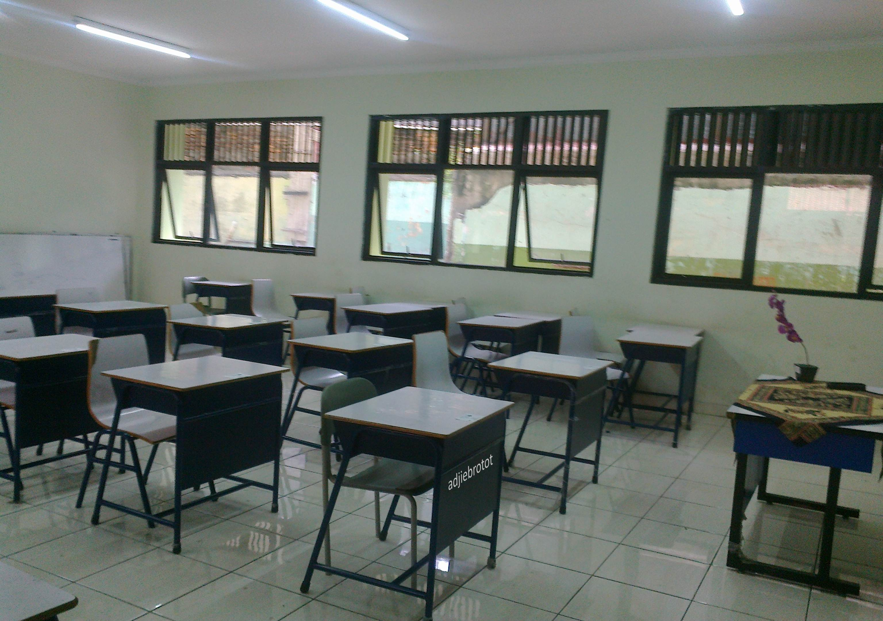 Classroom of State Junior High School 1 Jakarta by Adjiebrotot